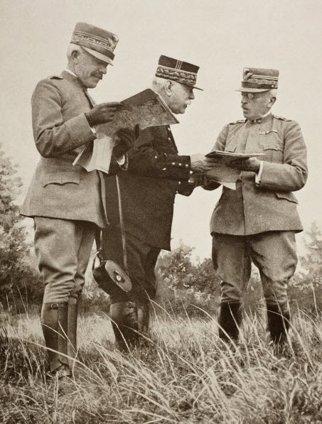 Carlo Porro, Joseph Joffre, and Luigi Cadorna